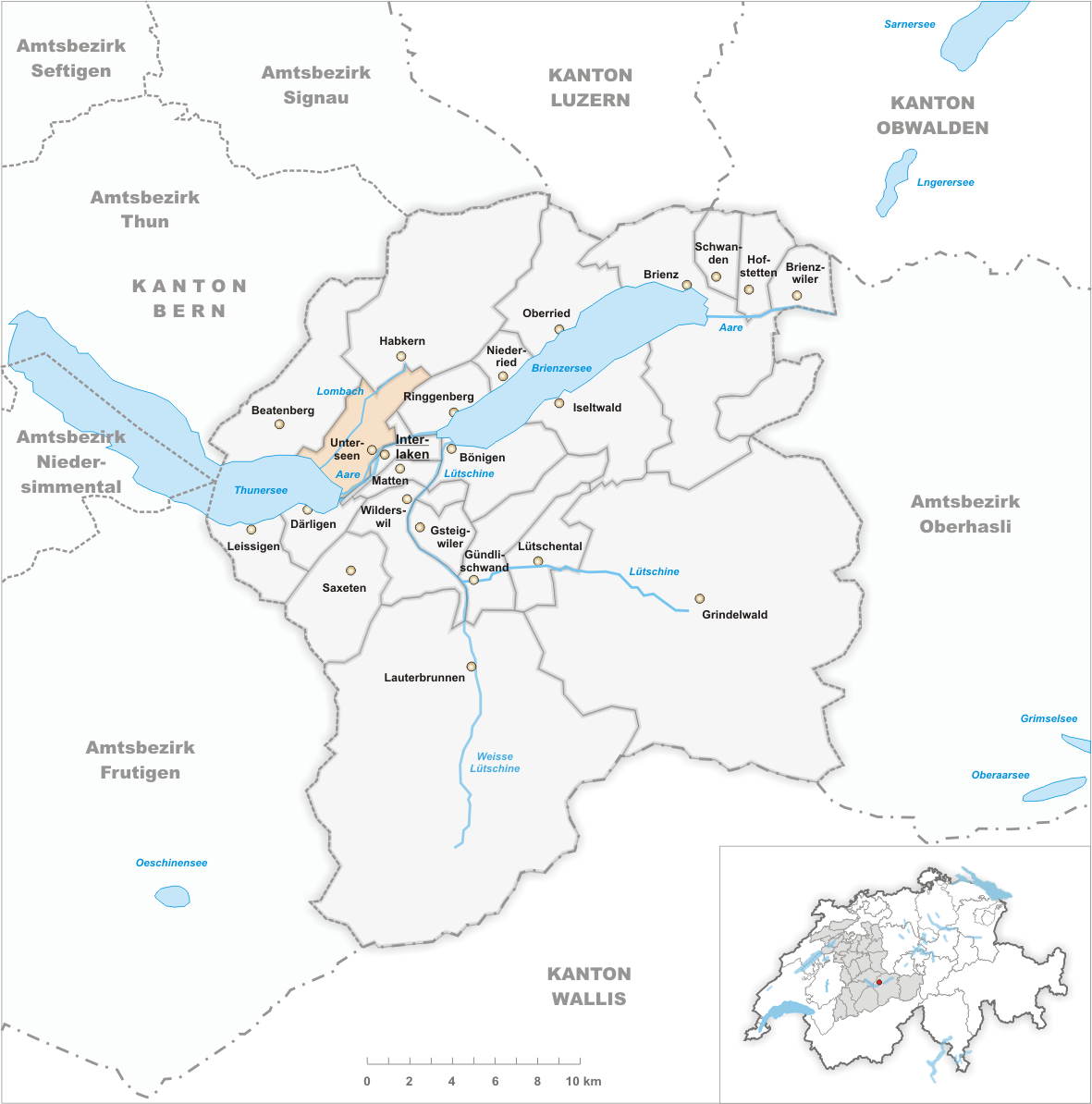 Municipality Unterseen